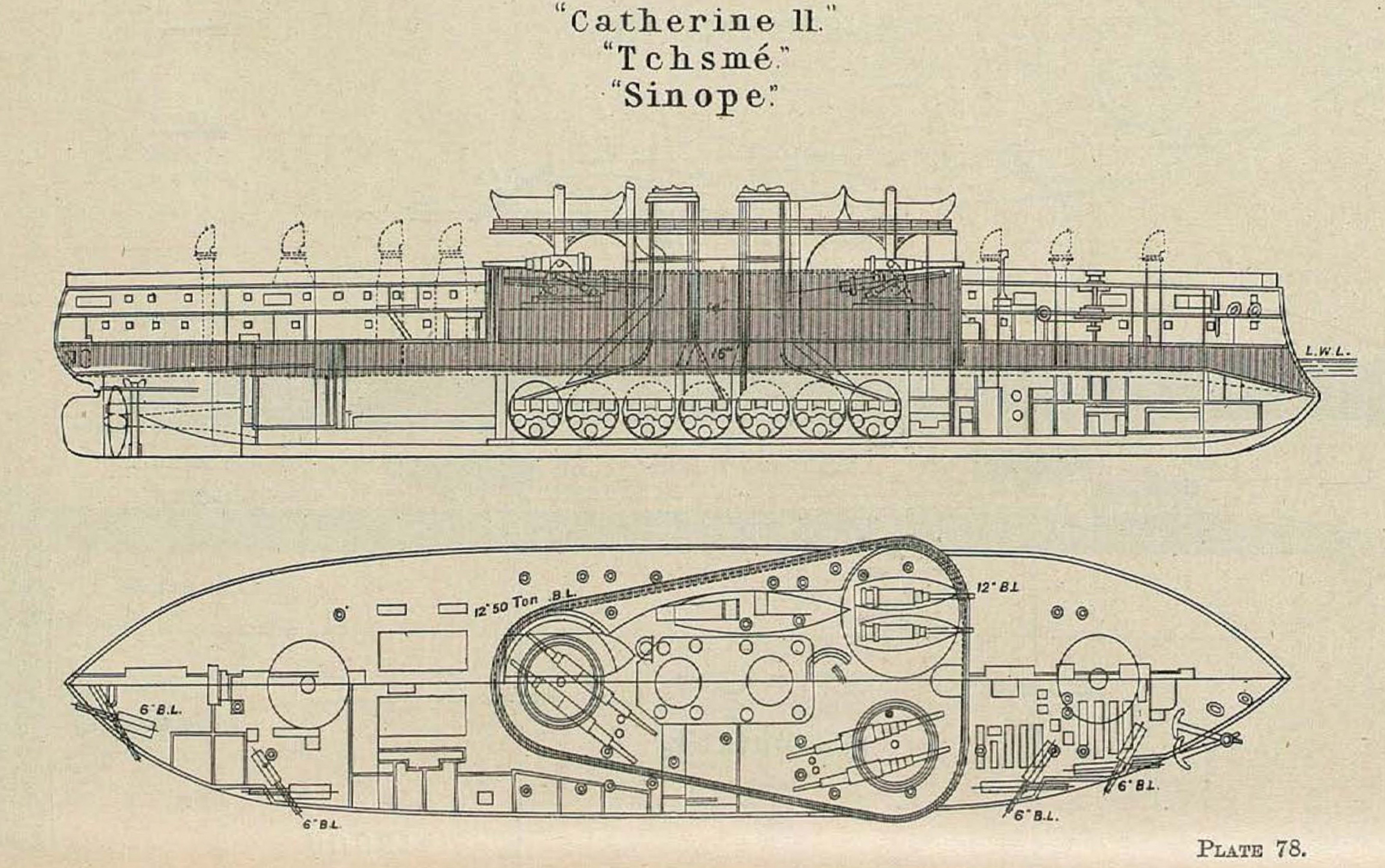 Right section and deck plan depicting Russian Ekaterina II class battleship. Top diagram (right side section) shows thickness of armour in inches. Bottom diagram (deck plan) shows gun sizes in inches.